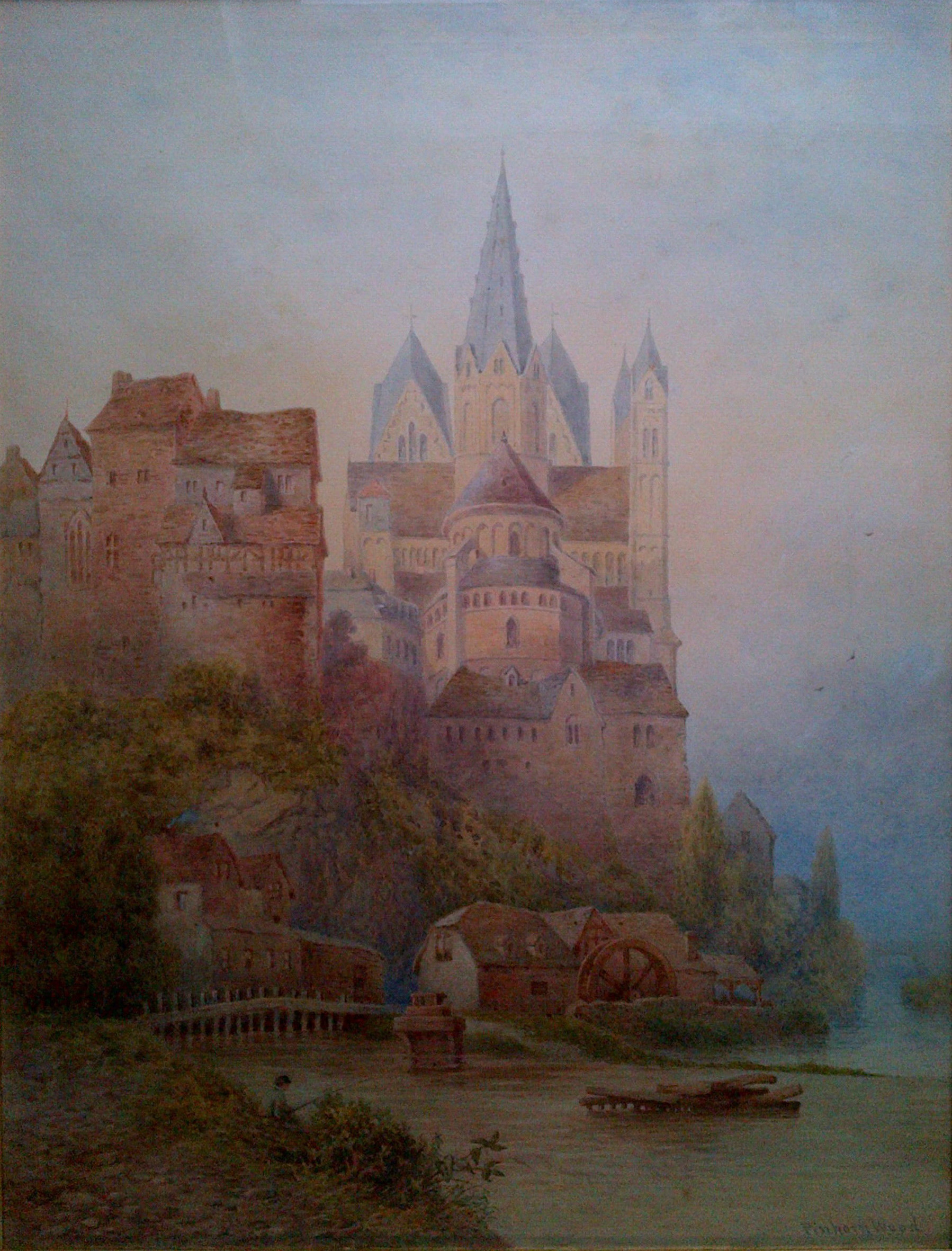 This watercolour painting portrays Limburg cathedral and Limburg schloss beside the Lahn River. It measures 26x19 inches. It is believed that Mr Wood painted it on a trip to the continent in 1892. His father, Lewis John Wood (1813-1901), built his painting career on scenes of Northern European city life, and is known to have painted in Limburg.